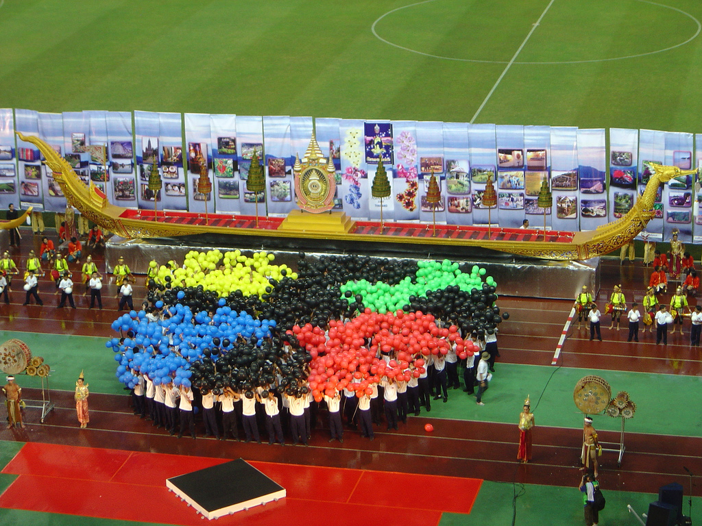 The Opening Ceremony of the 2007 AFC Asian Cup at Rajamangala Stadium in Bangkok, Thailand.